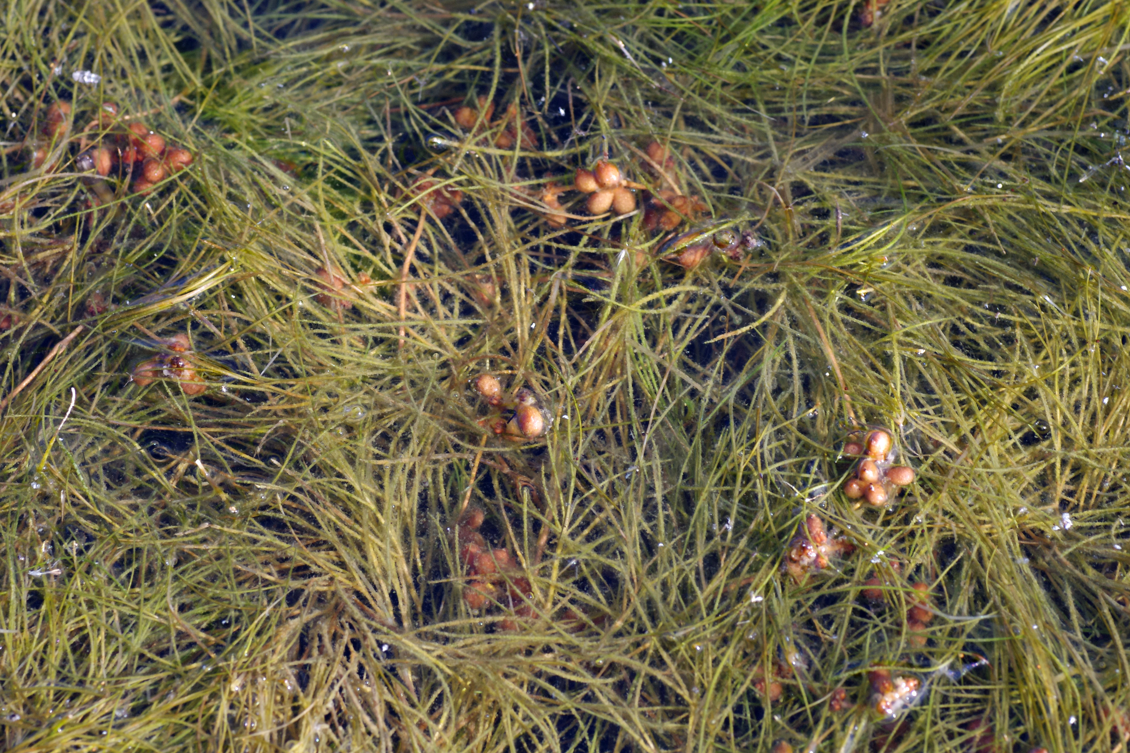 The Fennel Pondweed (Potamogeton pectinatus var pectinatus; Syn.: Stuckenia pectinata) in a pool. An accepted name for Potamogeton pectinatus L., Sp. Pl.: 127 (1753) is Stuckenia pectinata (L.) Börner, Fl. Deut. Volk.: 713 (1912).